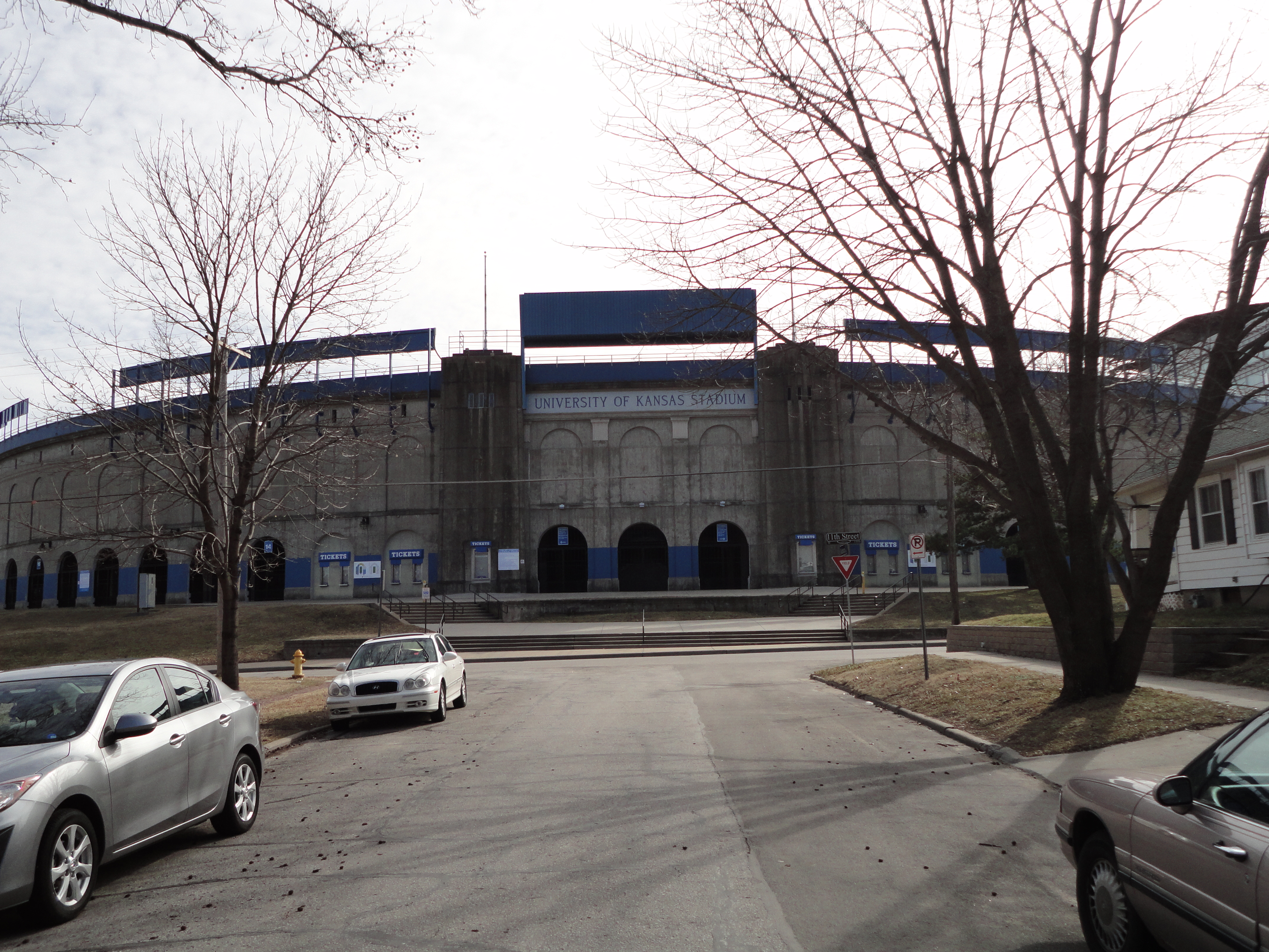 Main Athletic Stadium